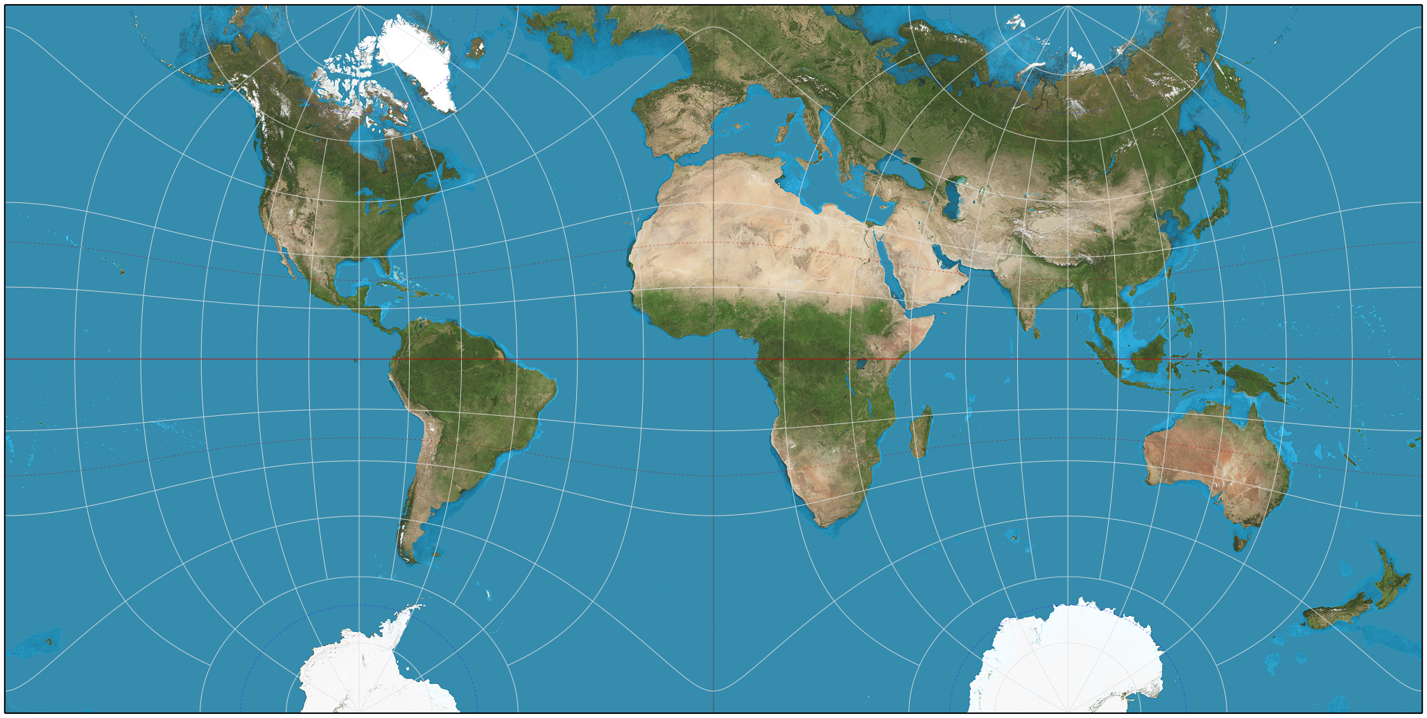 The world on Guyou doubly periodic projection. 15° graticule. Imagery is a derivative of NASA’s Blue Marble summer month composite with oceans lightened to enhance legibility and contrast. Image created with the Geocart map projection software.